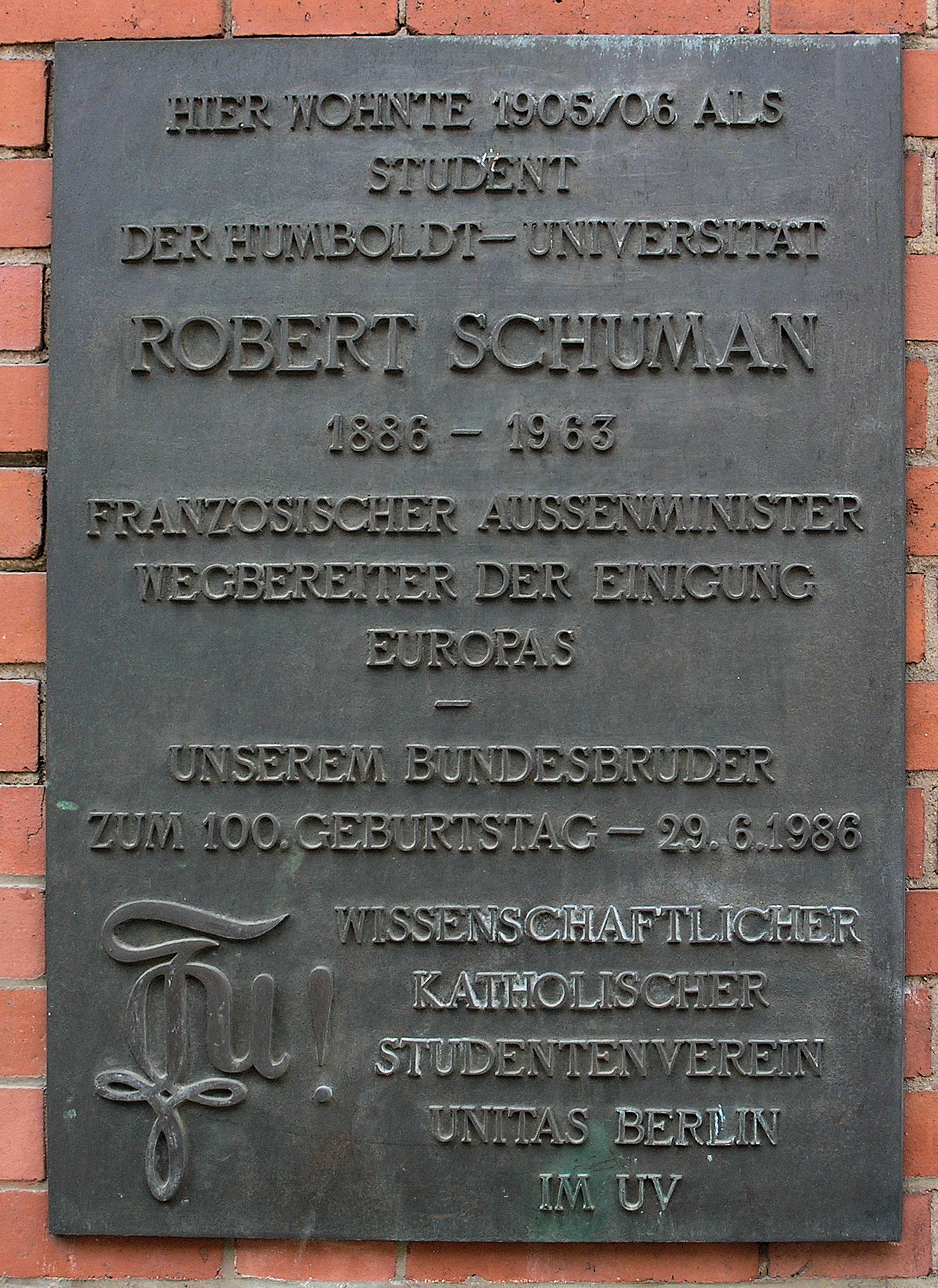 Memorial plaque, Robert Schuman, Graunstraße 31, Berlin-Gesundbrunnen, Germany Koordinate:52°32′43.8″N 13°23′53.7″E / 52.5455°N 13.39825°E